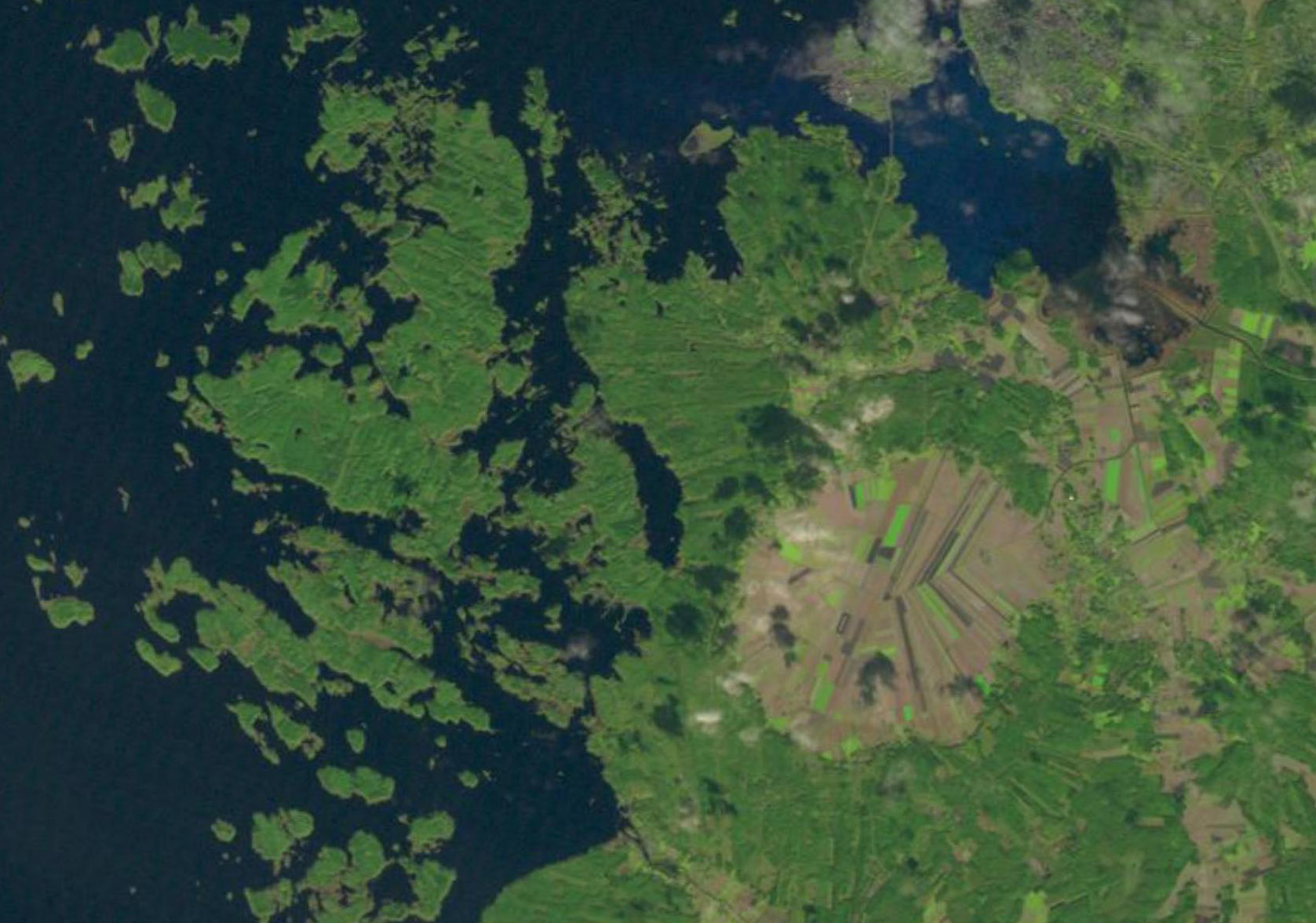 A Landsat picture of Söderfjärden impact crater near Vaasa, Finland